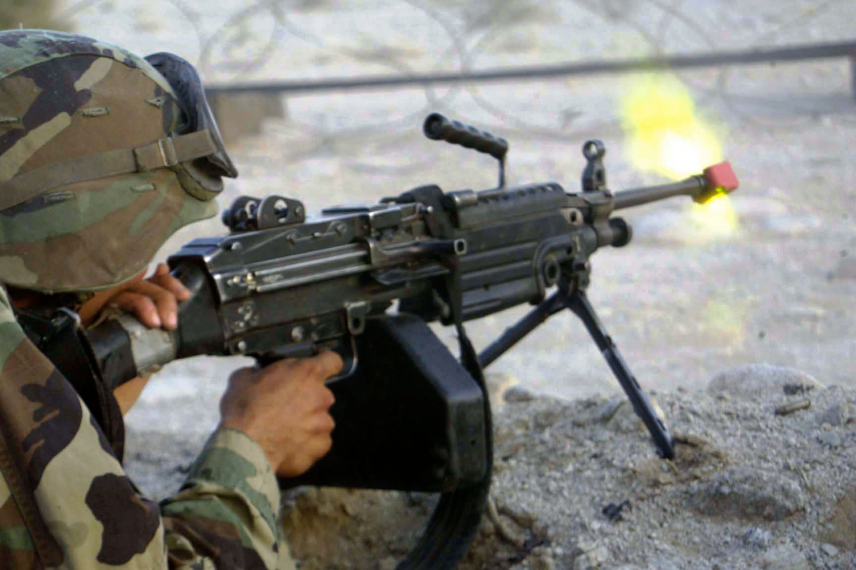 Marines of Fox Company, 2nd Battalion, 7th Marines, from Twentynine Palms, Calif., fire blanks from the M-249 Squad Automatic Weapon during an anti-terrorism exercise at Combat Town Oct. 26.